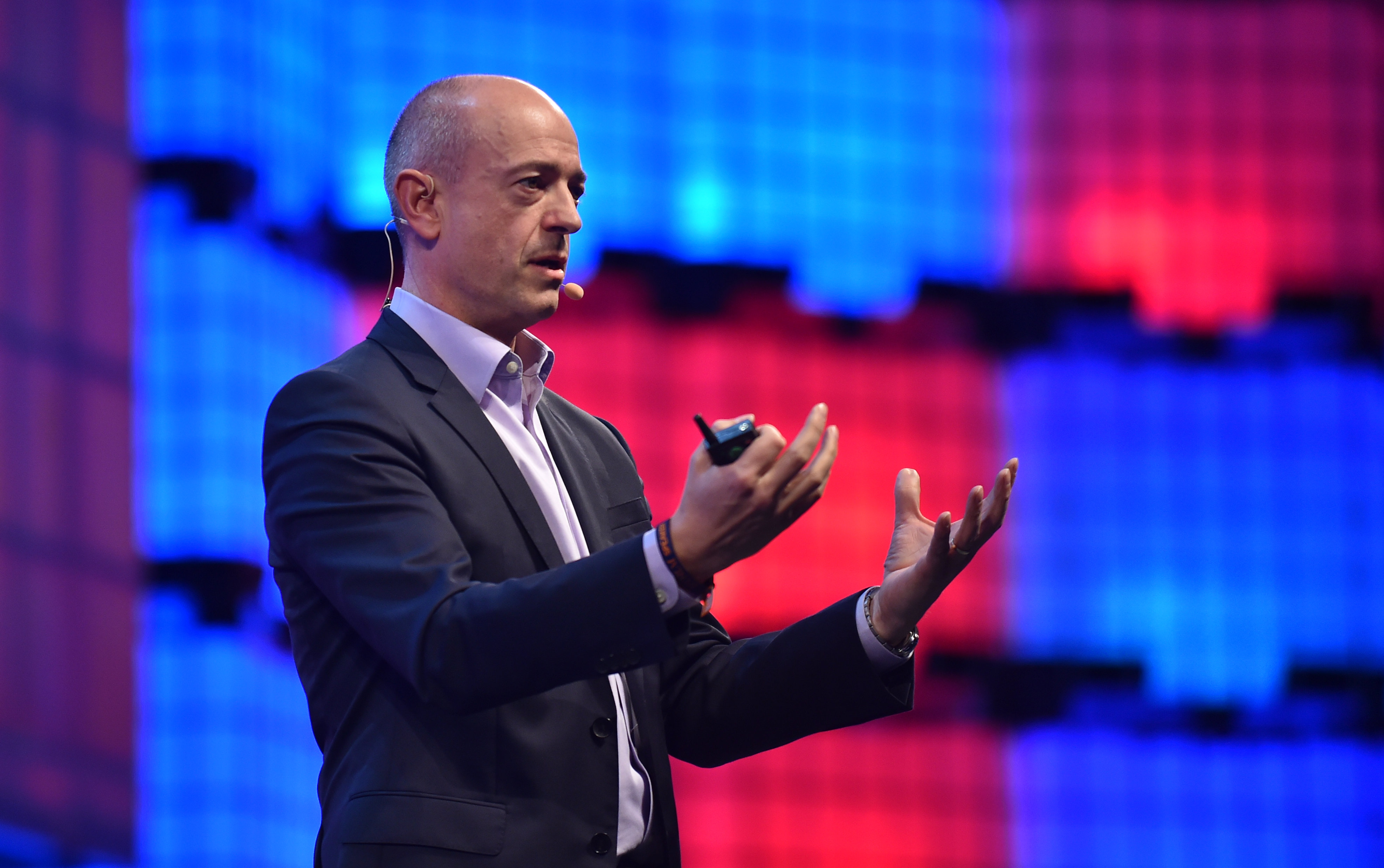 8 November 2017; Simon Segars, CEO, Arm, on Centre Stage during day two of Web Summit 2017 at Altice Arena in Lisbon. Photo by David Fitzgerald/Web Summit via Sportsfile